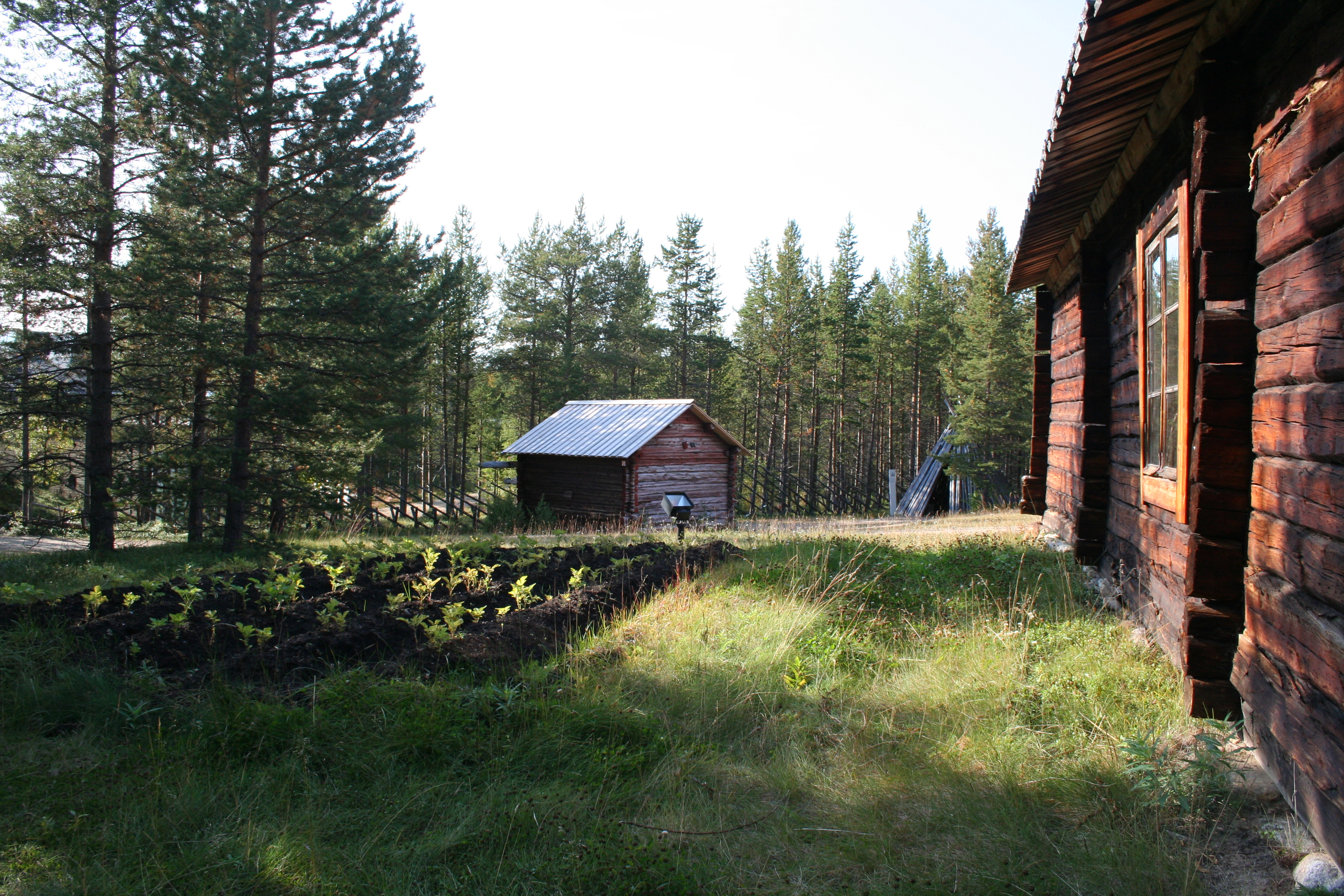 Open-air museum Siida in Inari, Finland